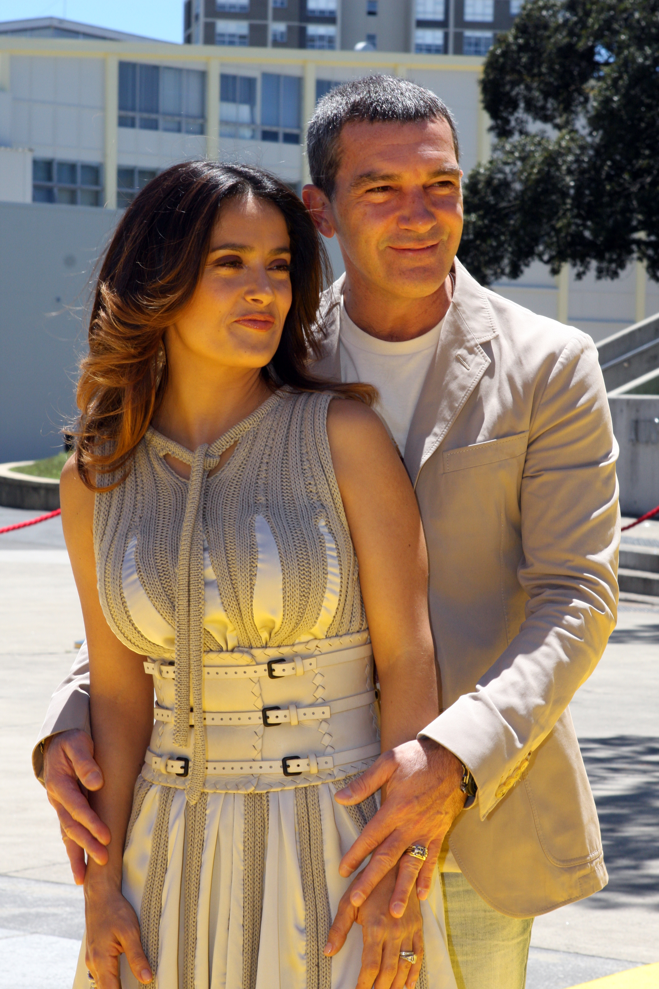 Antonio Banderas and Salma Hayek at Puss in Boots premiere at Moore Park, Fox Studios in Sydney, Australia.